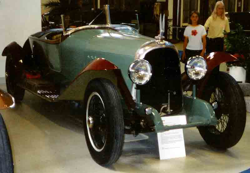 1924 Voisin C5, chassis no 3157. This car was rebodied in the Summer of 1925 by renowned Swedish artist Helmer MasOlle, who later designed Volvo's first car, the ÖV 4. The car was scrapped in the 1930s, but the frame and some bodyparts remained and along with the drivetrain of another scrapped Voisin (engine no. 2944) the car was restored/recreated over many years. More pictures here.